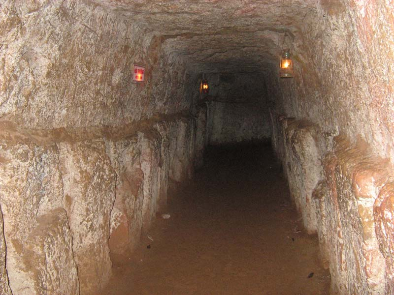 My photograph, available at